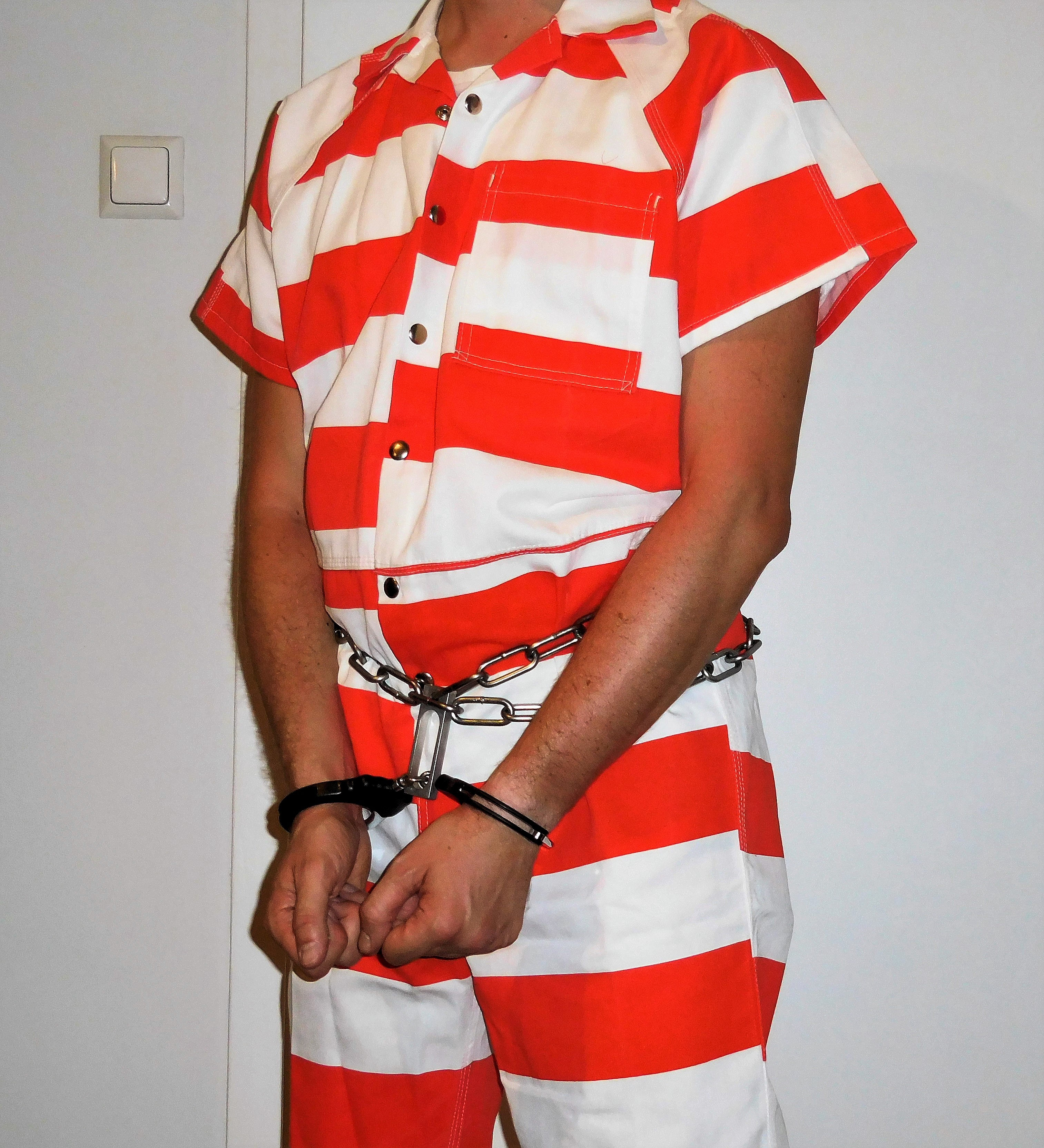 Inmate in striped coverall and handcuffs on a "martin link" belly chain